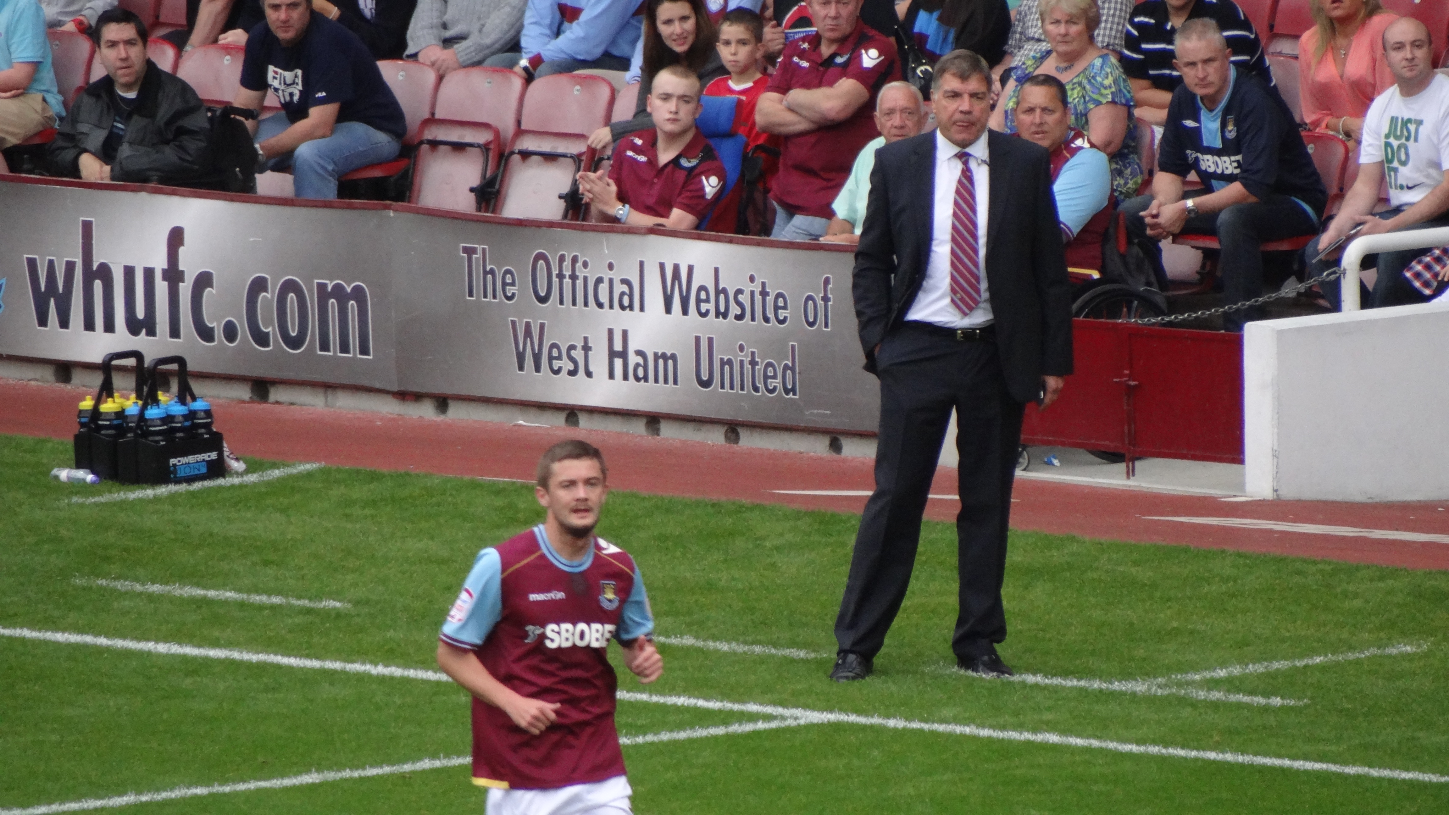 Sam Allardyce, West Ham manager.